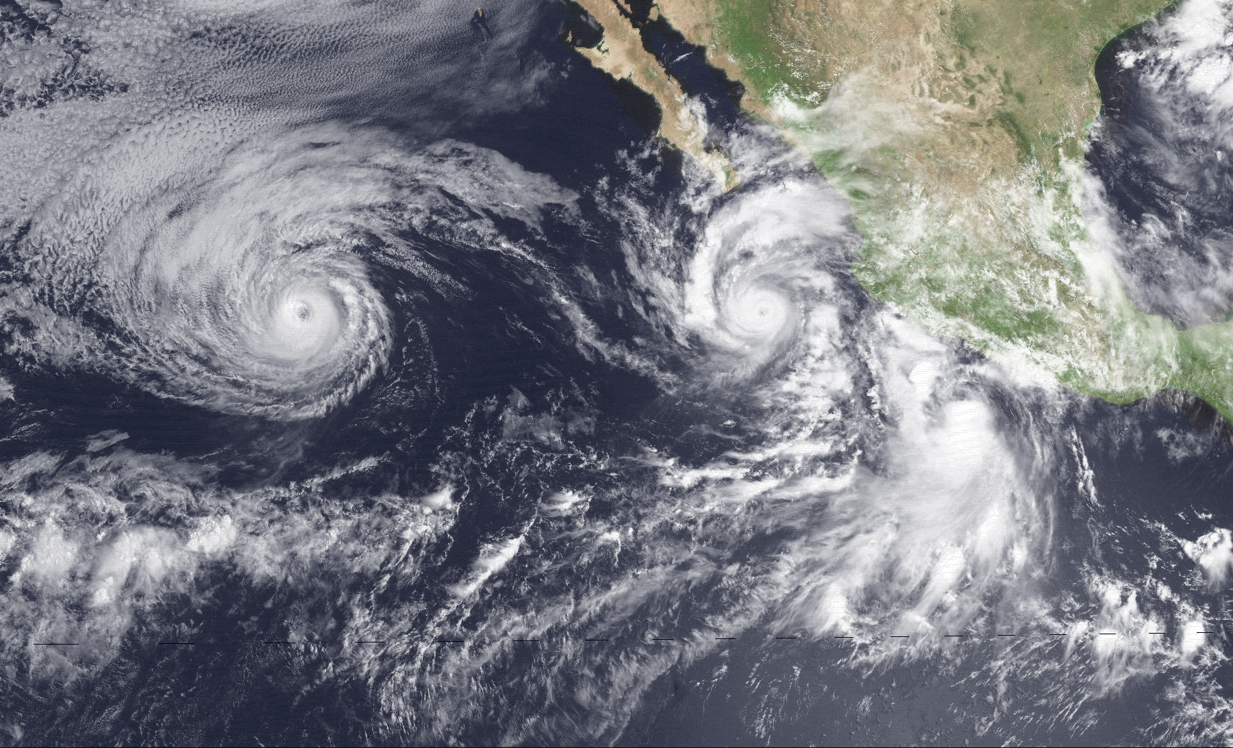 The GOES-7 satellite captured this panoramic image of (from left to right) Hurricane Greg, Hurricane Hilary, and Tropical Storm Irwin in the Pacific Ocean on August 21, 1993.